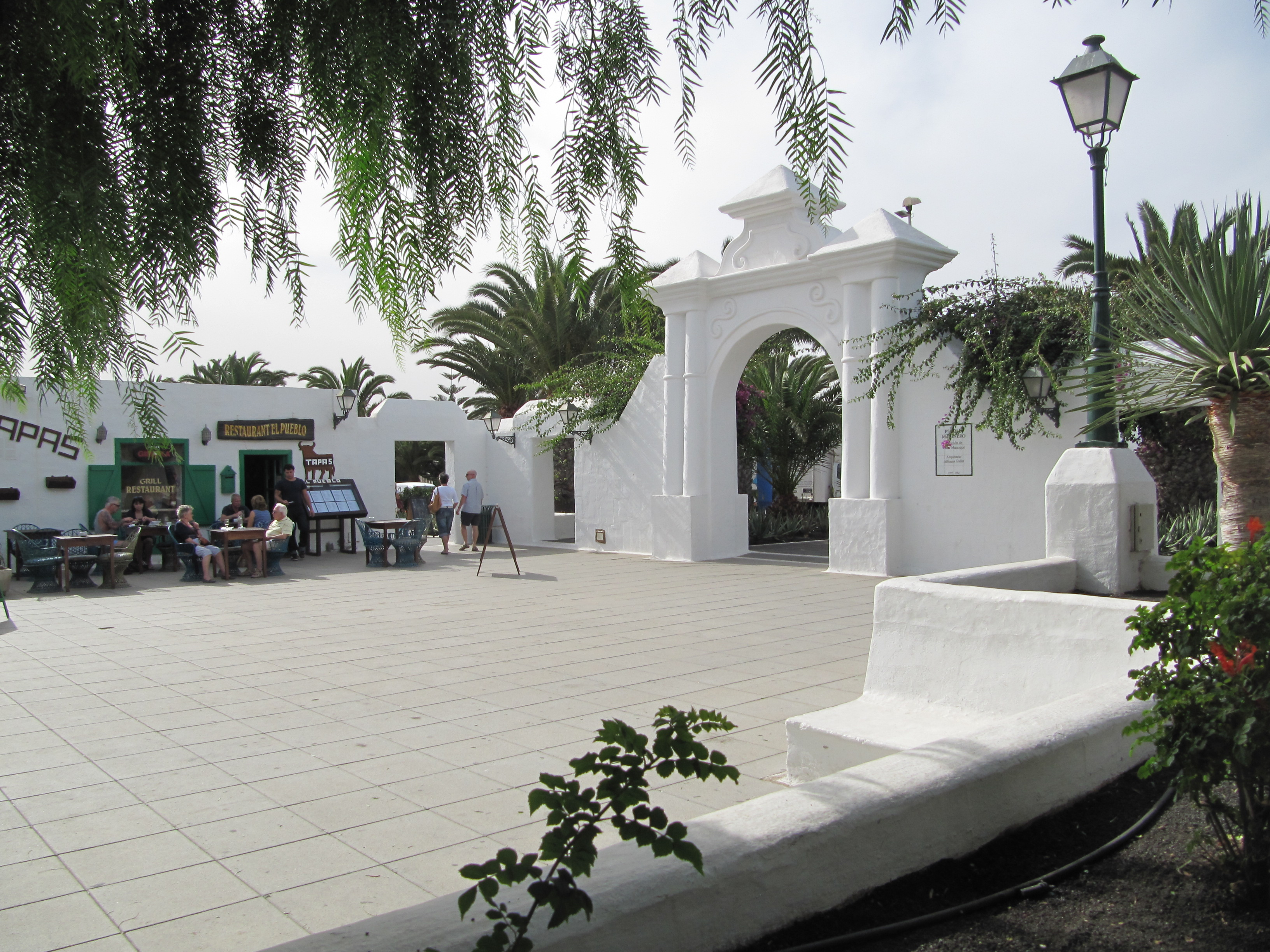 El Pueblo Marinero